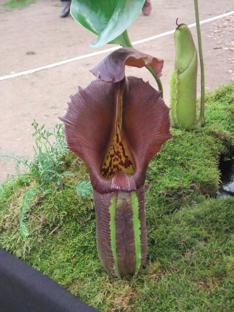 Nepenthes robcantleyi, 2011 Chelsea Flower Show